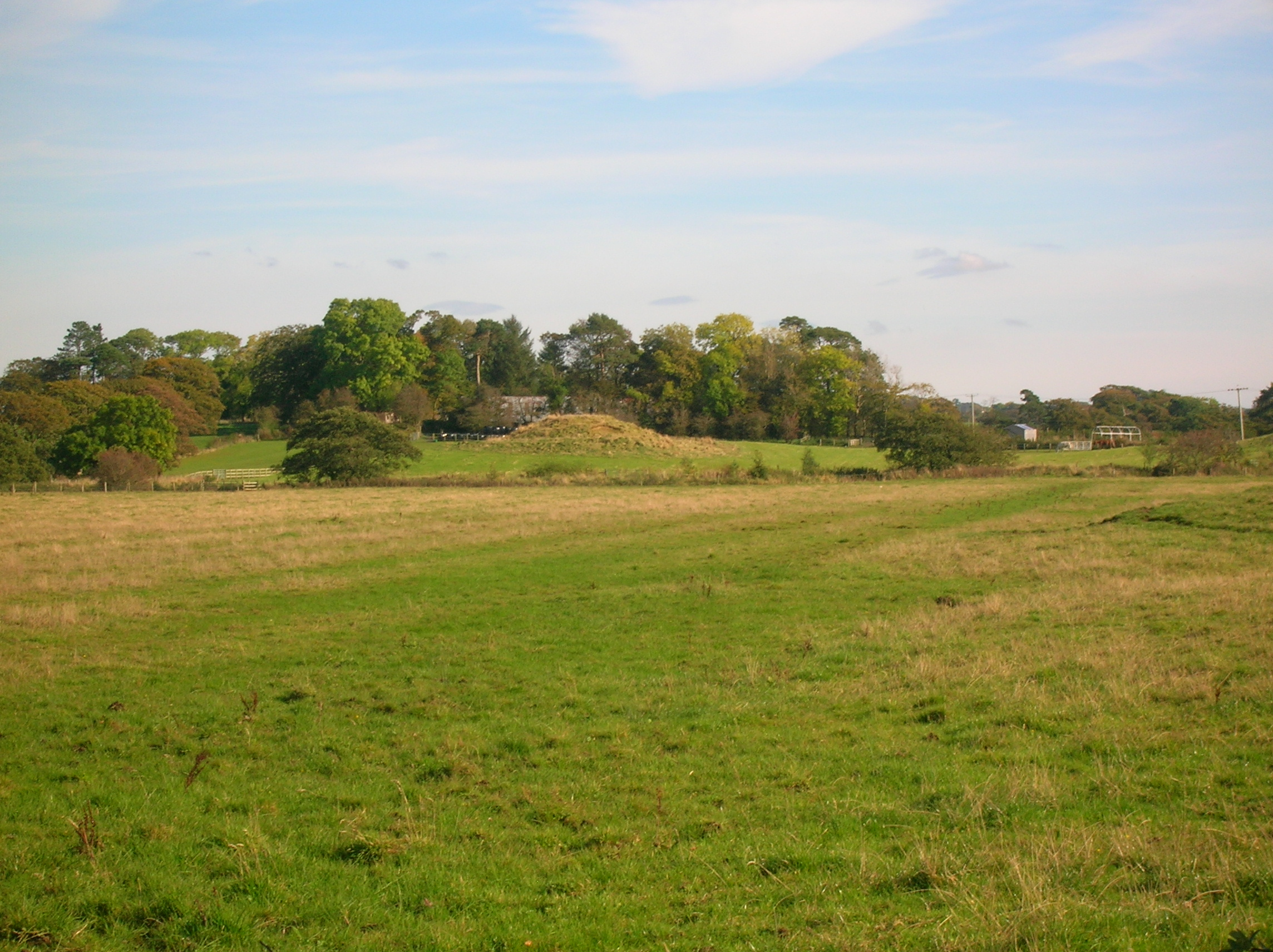 A view of the possible Moot hill called Hutt Knowe at Bonshaw Farm near the Glazert Water, North Ayrshire, Scotland.